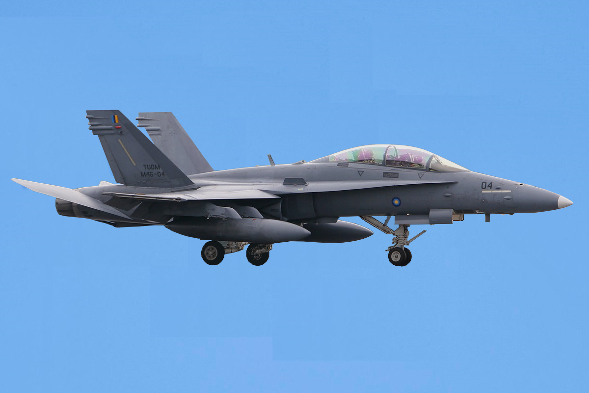 M45-04 (cn 1389/MAFD004) Returning to SZB after a National Day flypast rehearsal. Malaysia celebrates its 50th years of independence on August 31st. This image was altered. It really depicts an aircraft that is on the ground, judging from the landing gear's attitude. In higher resolutions you can actually see where the image was altered.